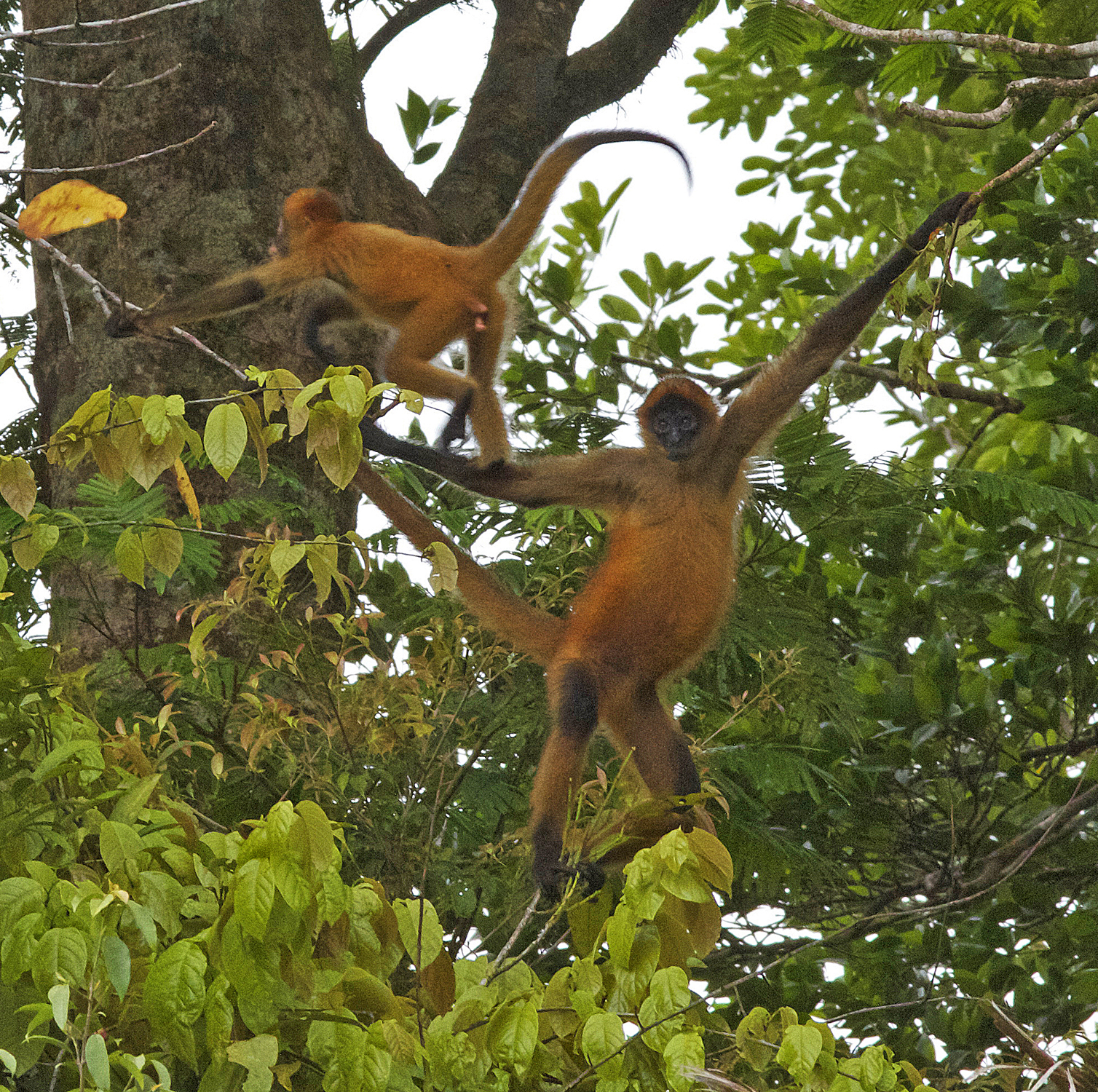 Taken along the road to Tortuguero National Park, Costa Rica.